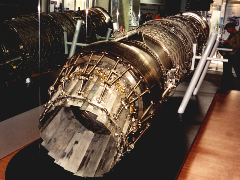 Eurojet EJ230 - vectored-trust engine of Eurofighter Typhoon for Tranche 3B.